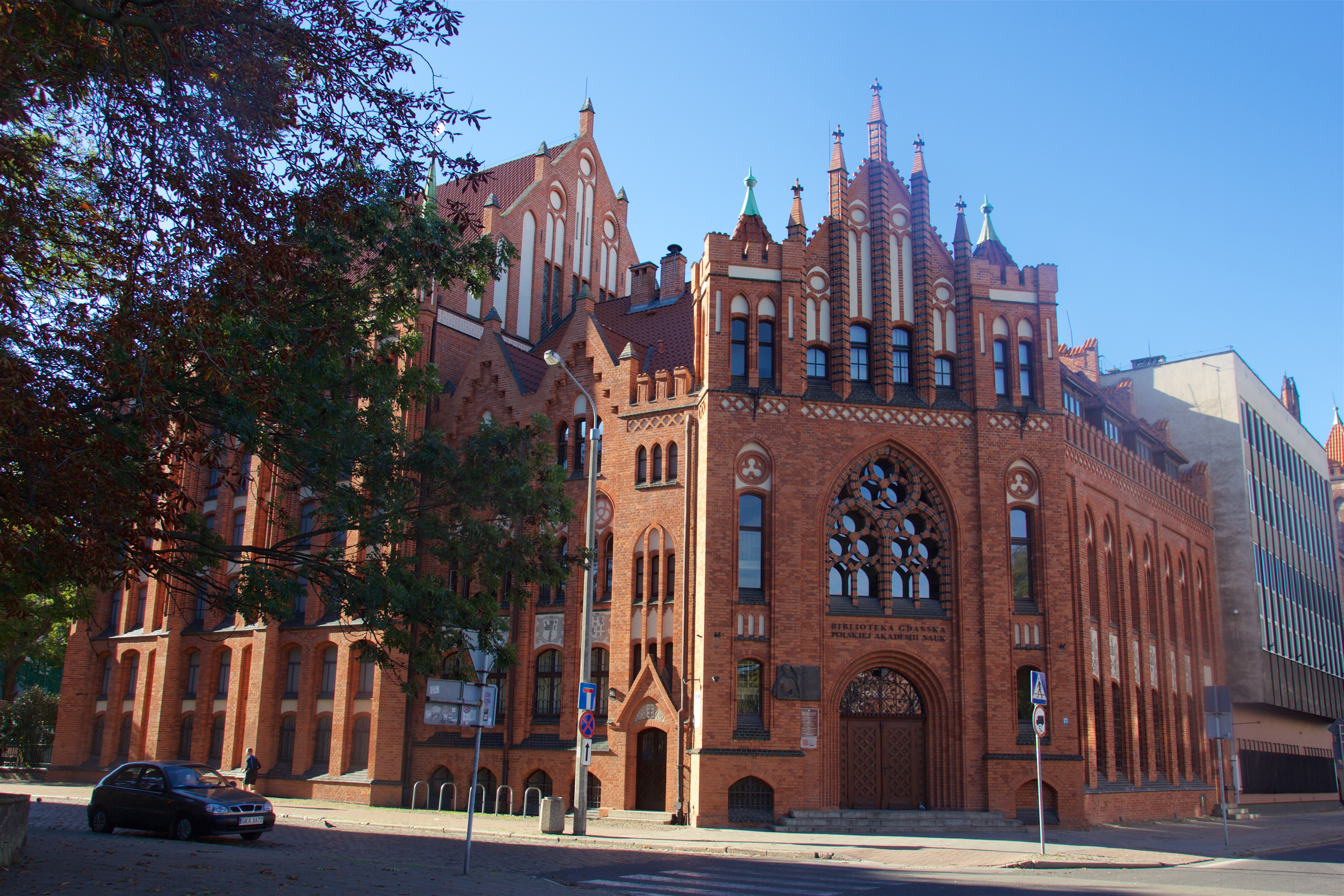 Gdańsk Library of Polish Academy of Sciences, Gdańsk, Poland.